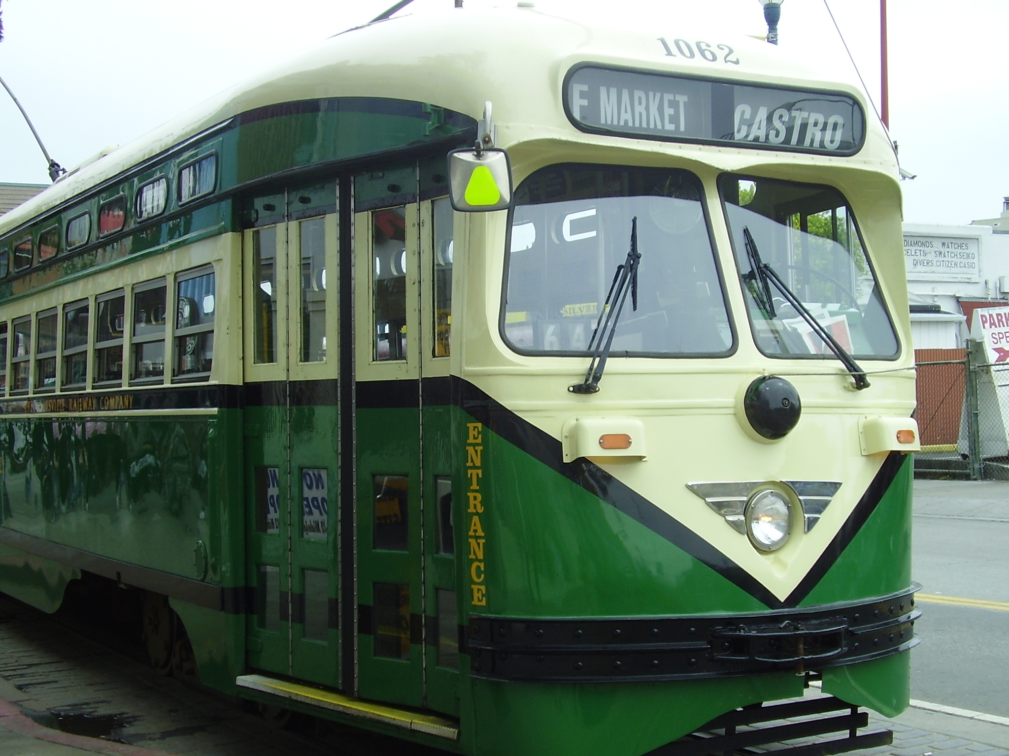 San Francisco Muni's PCC 1062 on the F Market & Wharves line. 1062 has the livery of Louisville, KY. It was sold by SEPTA to Muni in 1992.